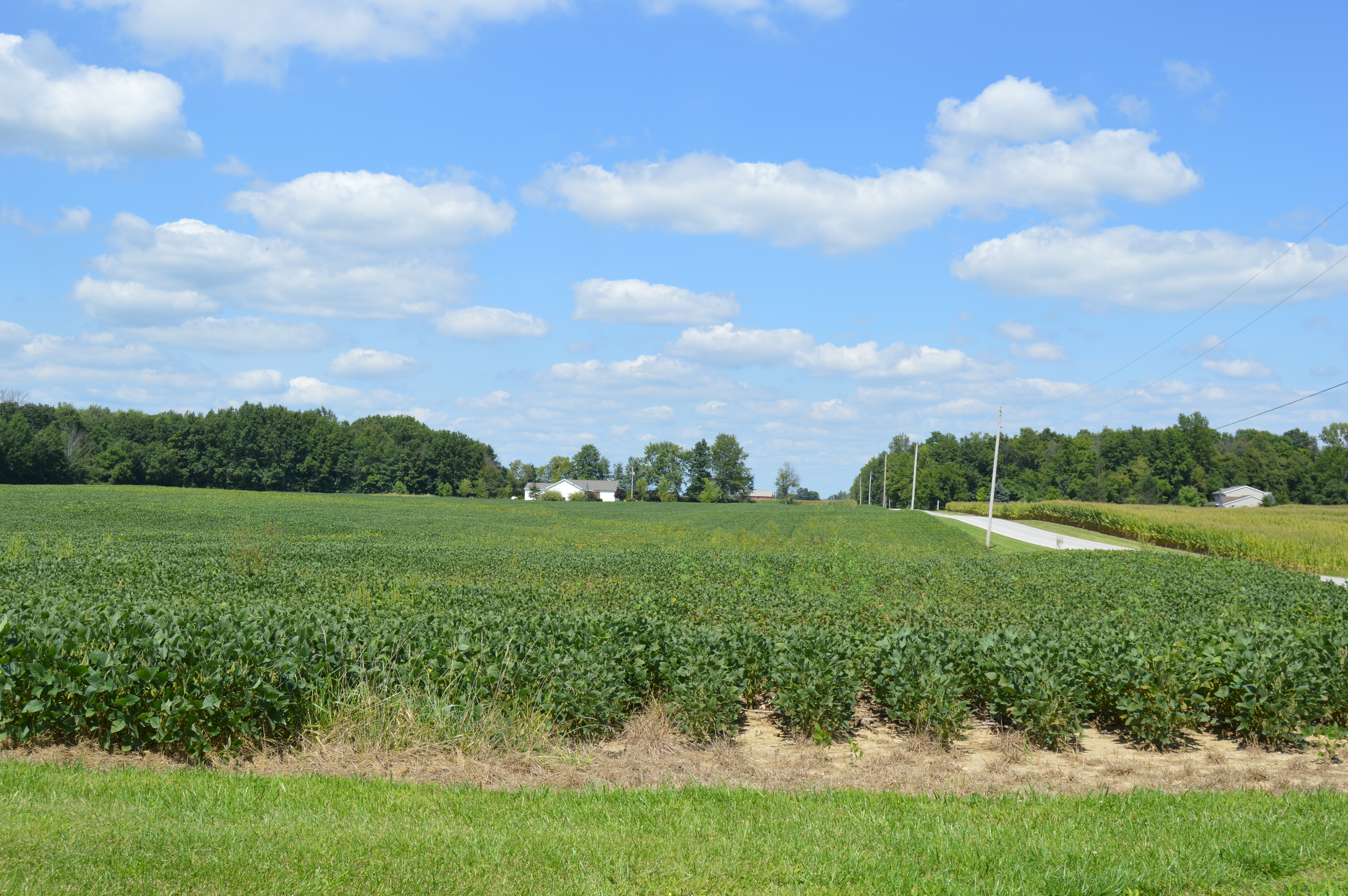 Looking northward along Township Road 28 from the Township Road 141 intersection in Cardington Township, Morrow County, Ohio, United States.